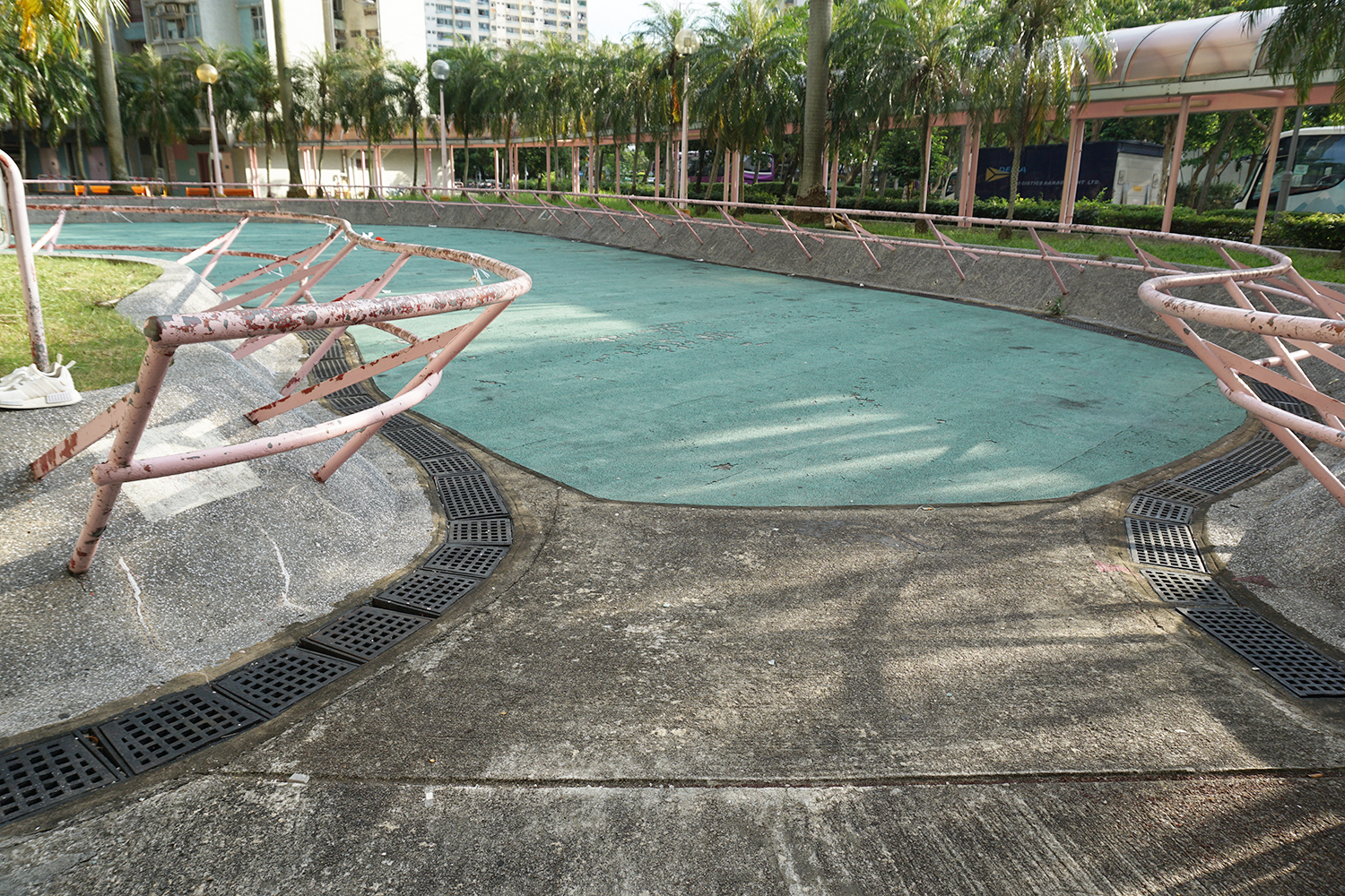 Fu Heng Estate in Tai Po, Hong Kong.